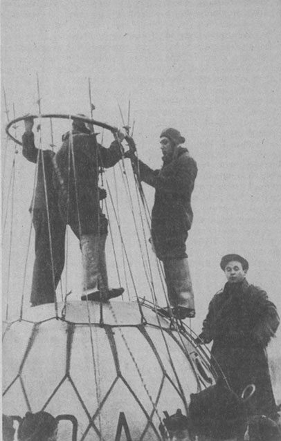 Team stratospheric before landing in Gondola.